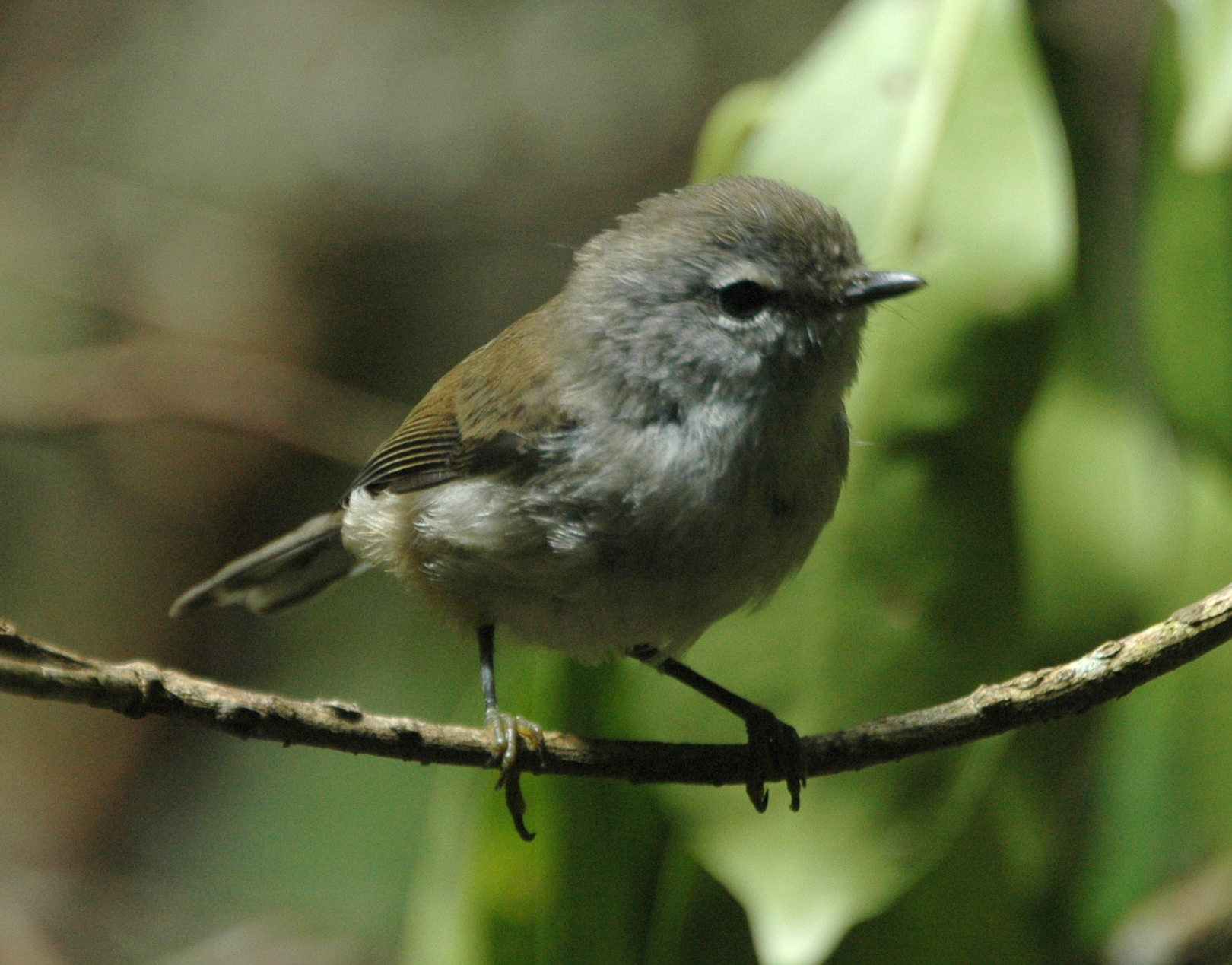 Brown Gerygone (Gerygone mouki) Lamington NP, SE Queensland, Australia